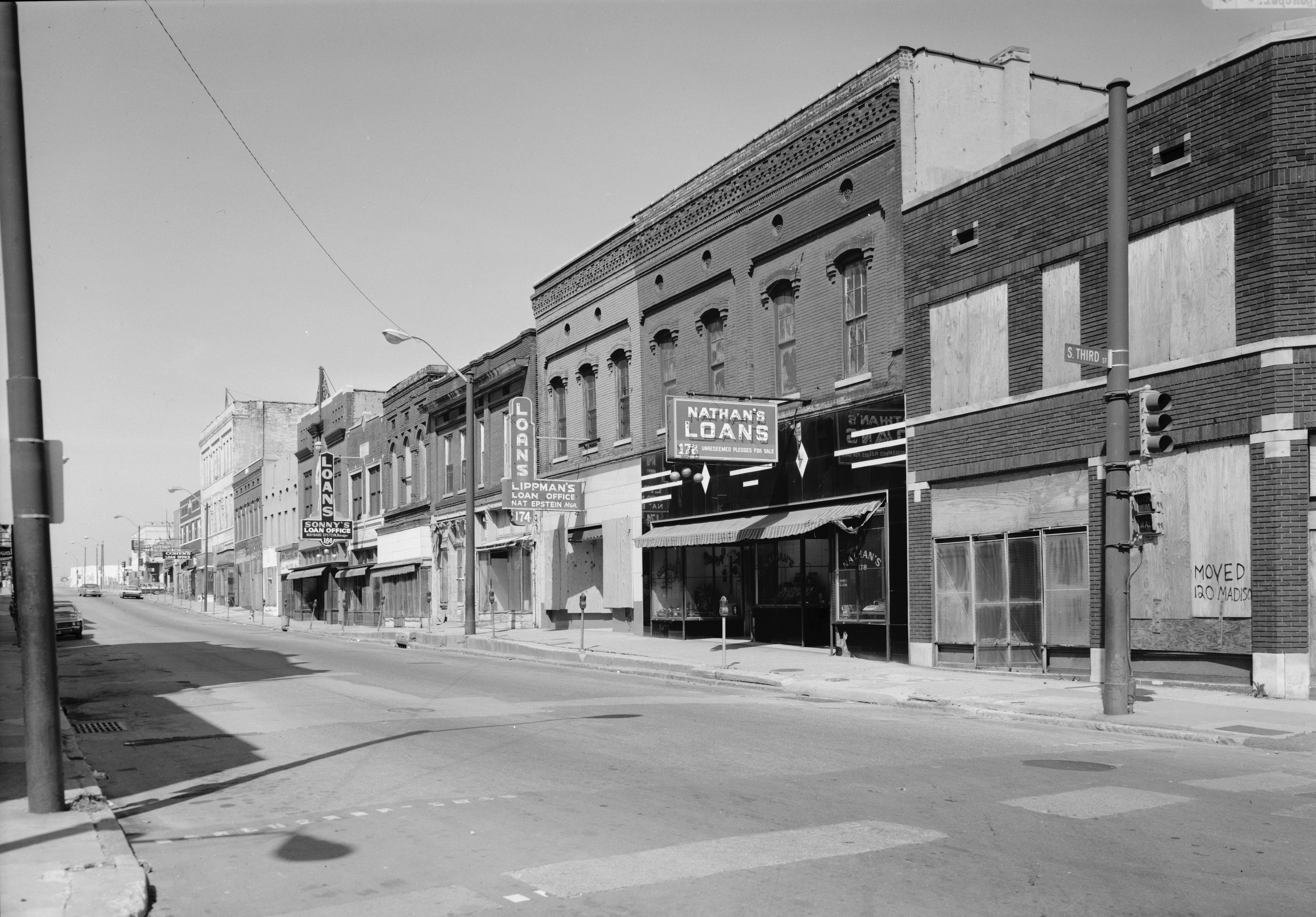 Memphis, Tennessee Beale Street Historic District, Memphis, Shelby County, TN LOOKING WEST FROM SOUTH THIRD STREET Photo taken in 1974.